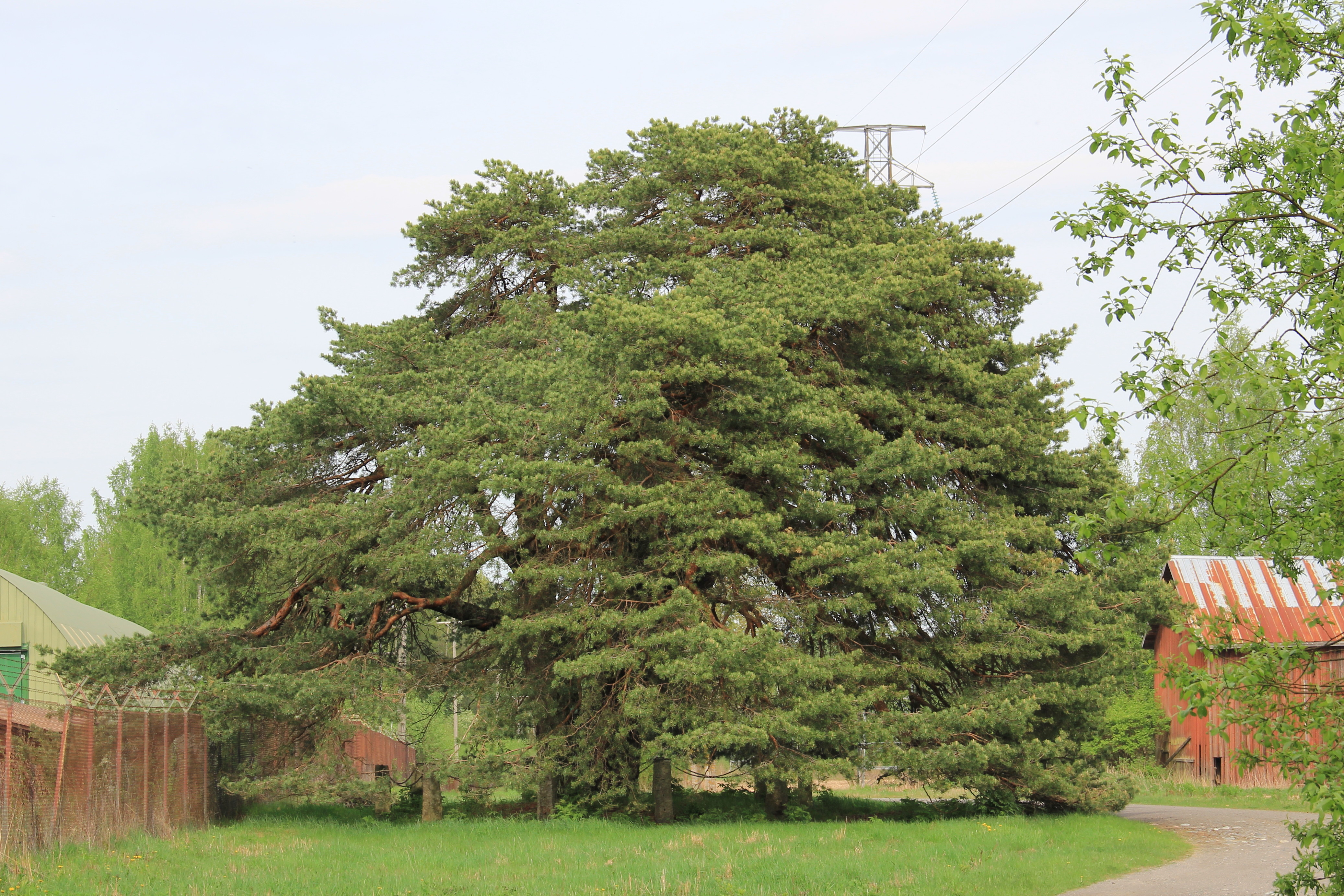 Keisarinmänty ("Emperors pine""), Pinus sylvestris, Pikku-Parola, Hämeenlinna, Finland.